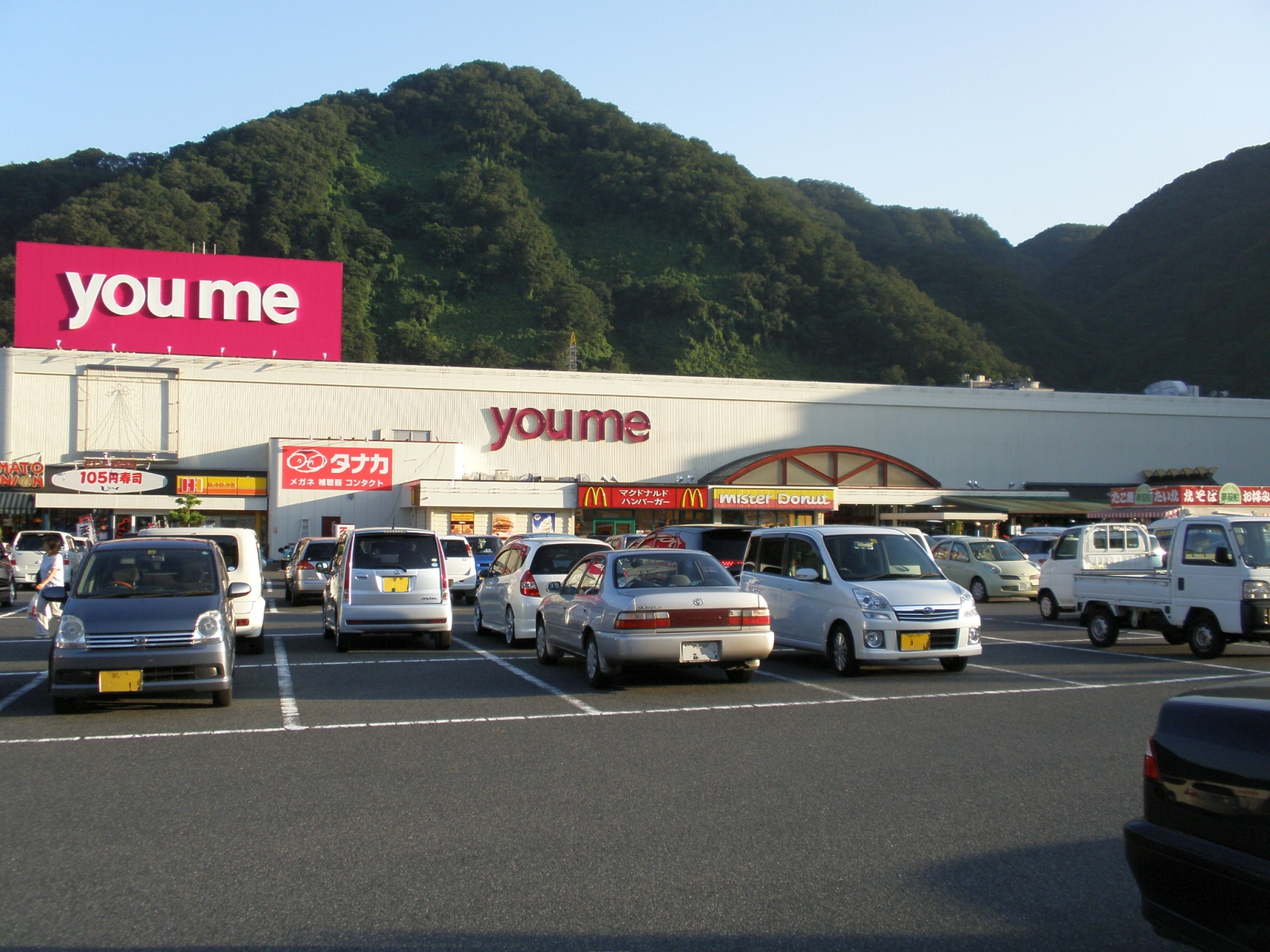 you me town Takahashi.